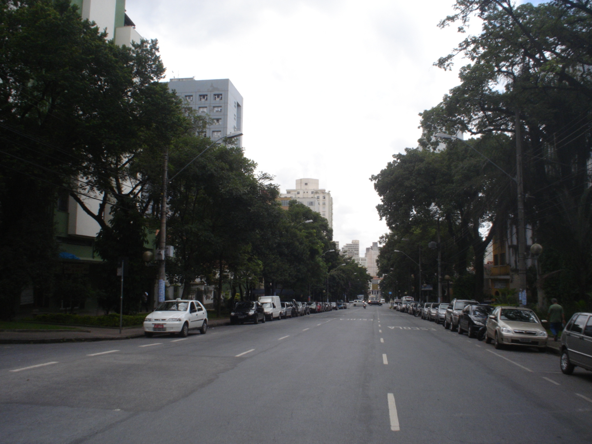 Assis Chateaubriand Avenue in Belo Horizonte, Brazil.